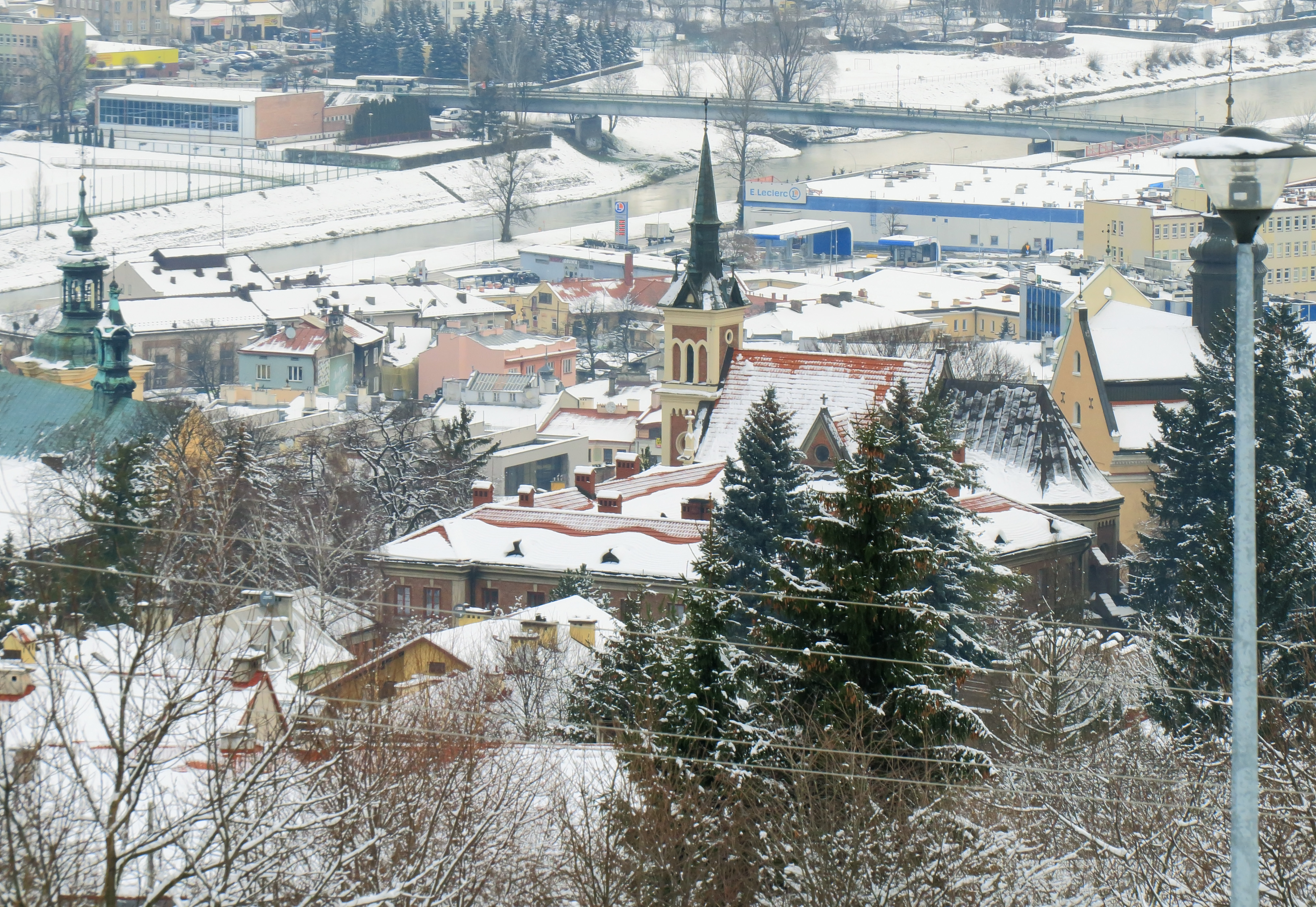 Our Lady of the Scapular Church in Przemyśl. View from Zniesienie hill